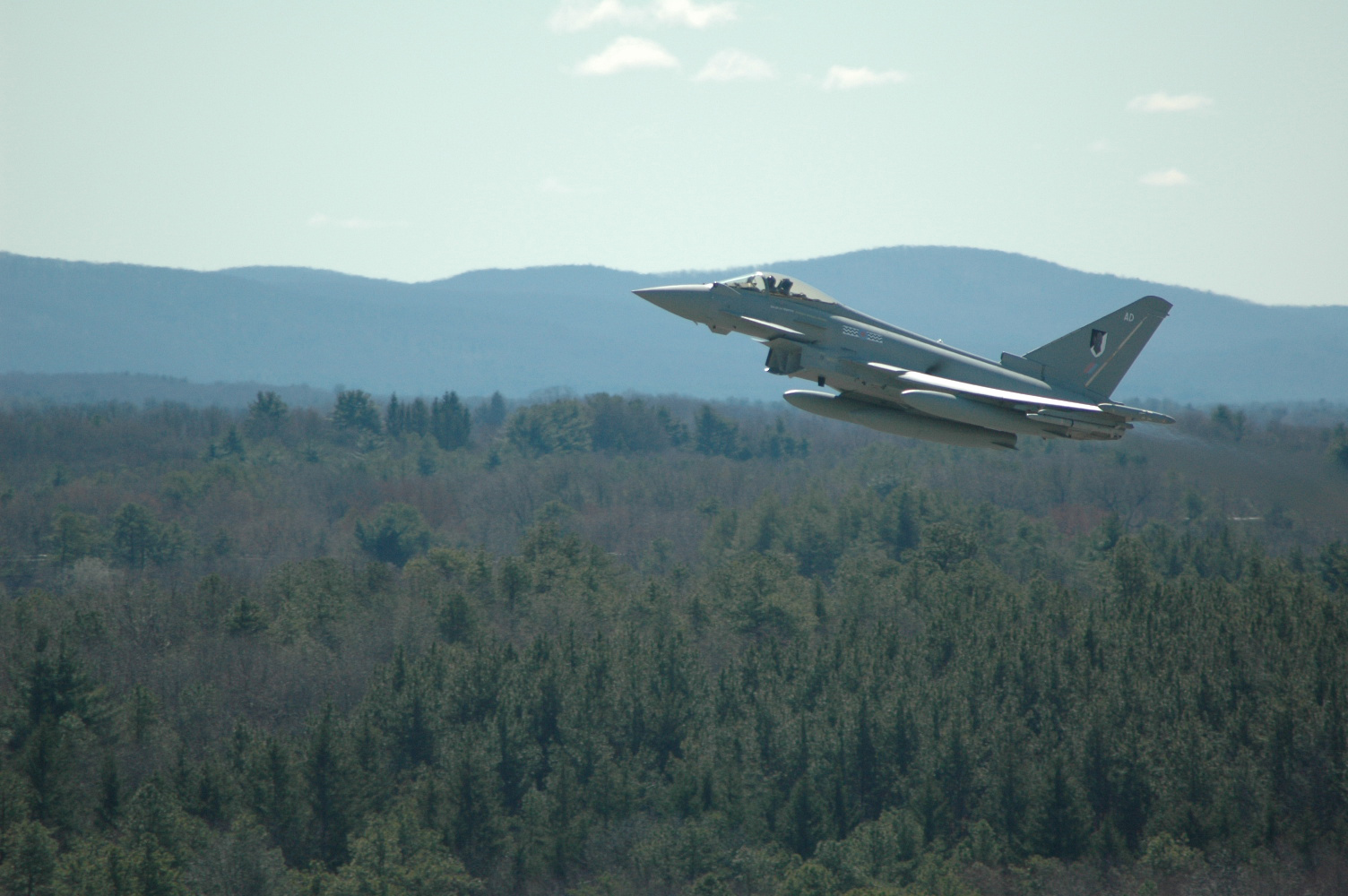 A Royal Air Force Eurofighter Typhoon near Westover AFRB, Massachusetts, USA